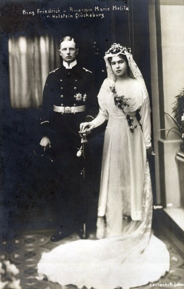 Marriage of Marie Melita of Hohenlohe-Langenburg with Hereditary Prince Friedrich of Holstein-Glücksburg